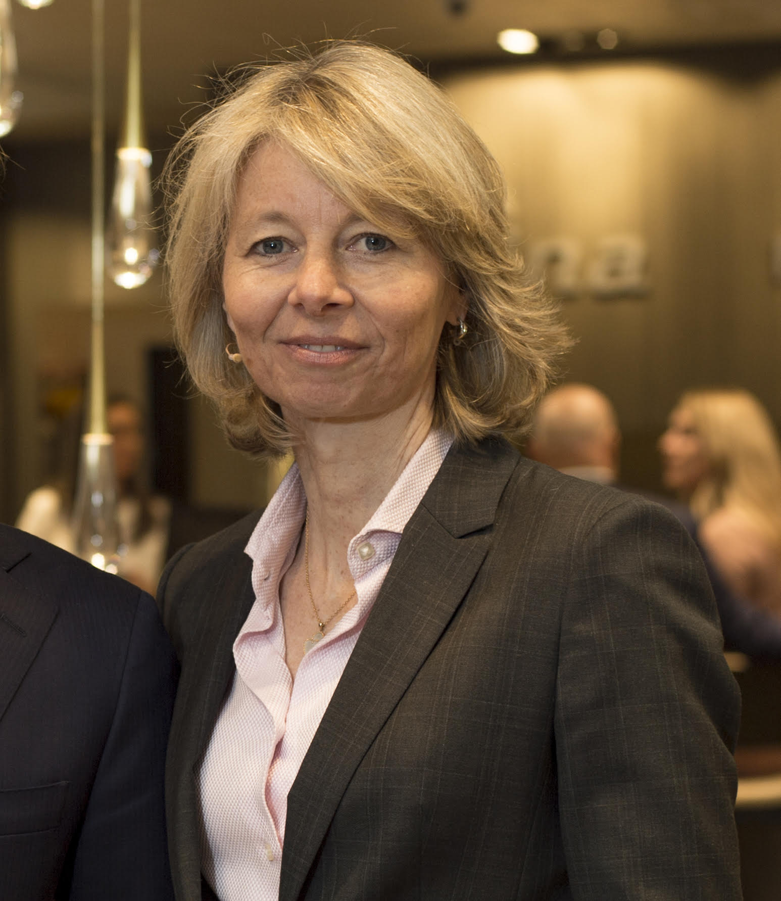 Aletta Stas in Frédérique Constant Alpina and Ateliers DeMonaco Press conference in front of more than 200 specialized journalist at baselworld 2017 on 23 rd March 2017